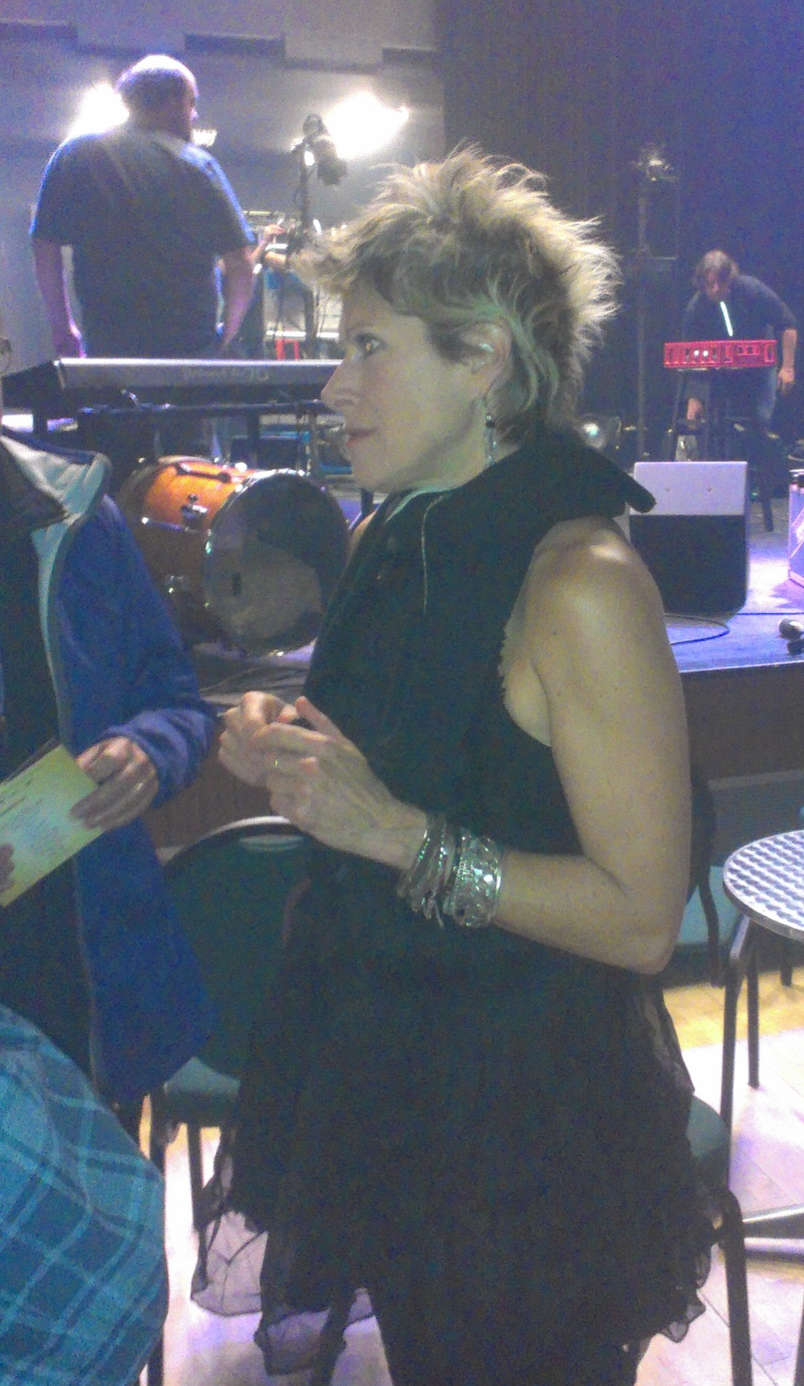 Luce Dufault photographed in St. Eustache, Quebec, Canada at La Petite Église following her concert.